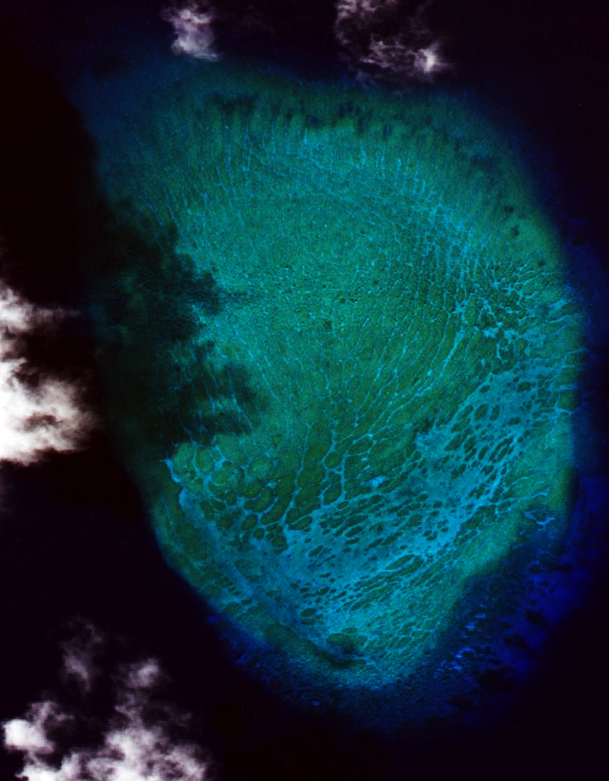 Bittern Reef